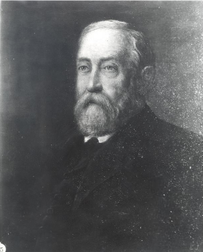 Benjamin Harrison Attribution Eastman Johnson, 29 Jul 1824 - 5 Apr 1906 Sitter Benjamin Harrison, 20 Aug 1833 - 13 Mar 1901 Date c. 1890-1900 Type Painting Medium Oil on canvas Dimensions 61.3cm x 51.2cm (24 1/8" x 20 3/16"), Accurate Credit Line Current Owner: New York State Office of Parks, Recreation and Historic Preservation Website: Object number PM1972.47 Data Source Catalog of American Portraits See more items in Catalog of American Portraits